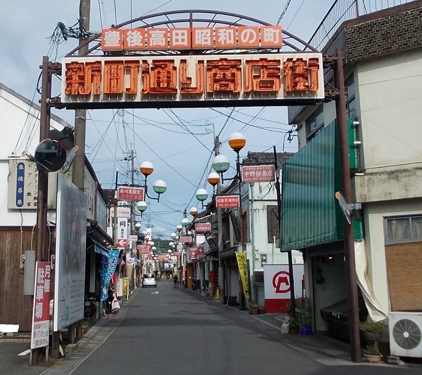 Shinmachidōri shopping arcade around the Showa no Machi, Bungotakada, Oita, Japan